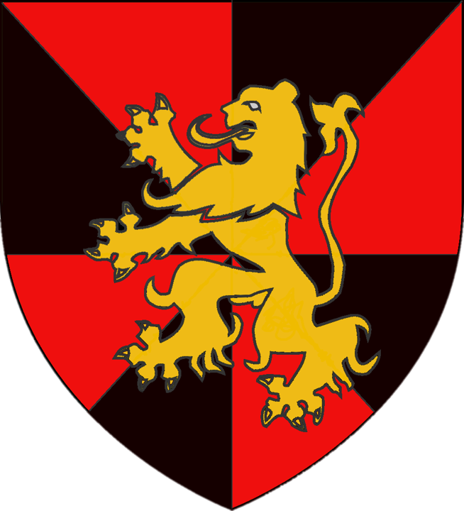 Arms of Mathews of Virginia and West Virginia